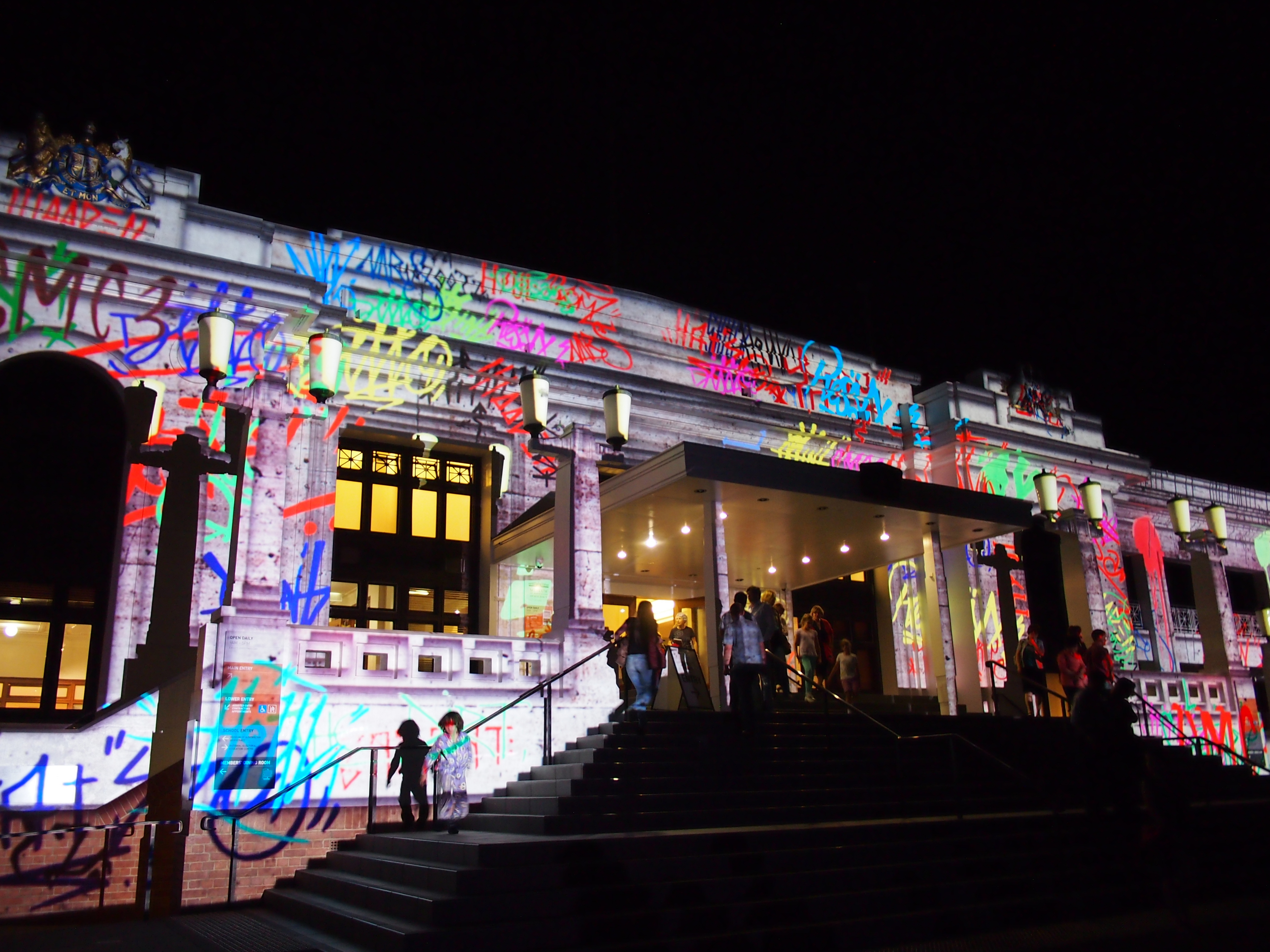 The main entrance to Old Parliament House during the 2013 Enlighten festival